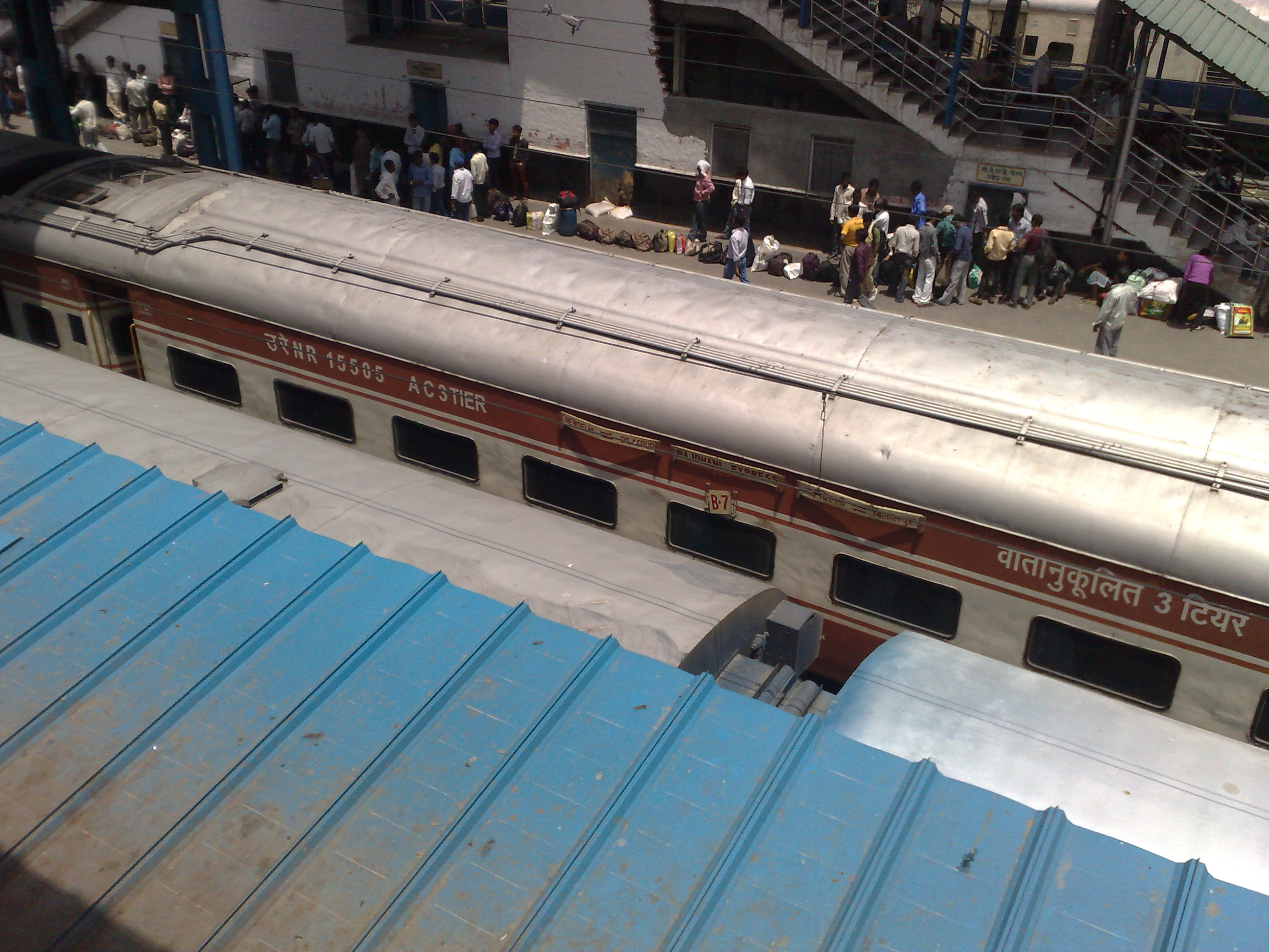 Bilaspur Rajdhani